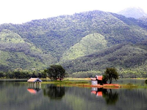 cnbvnvn